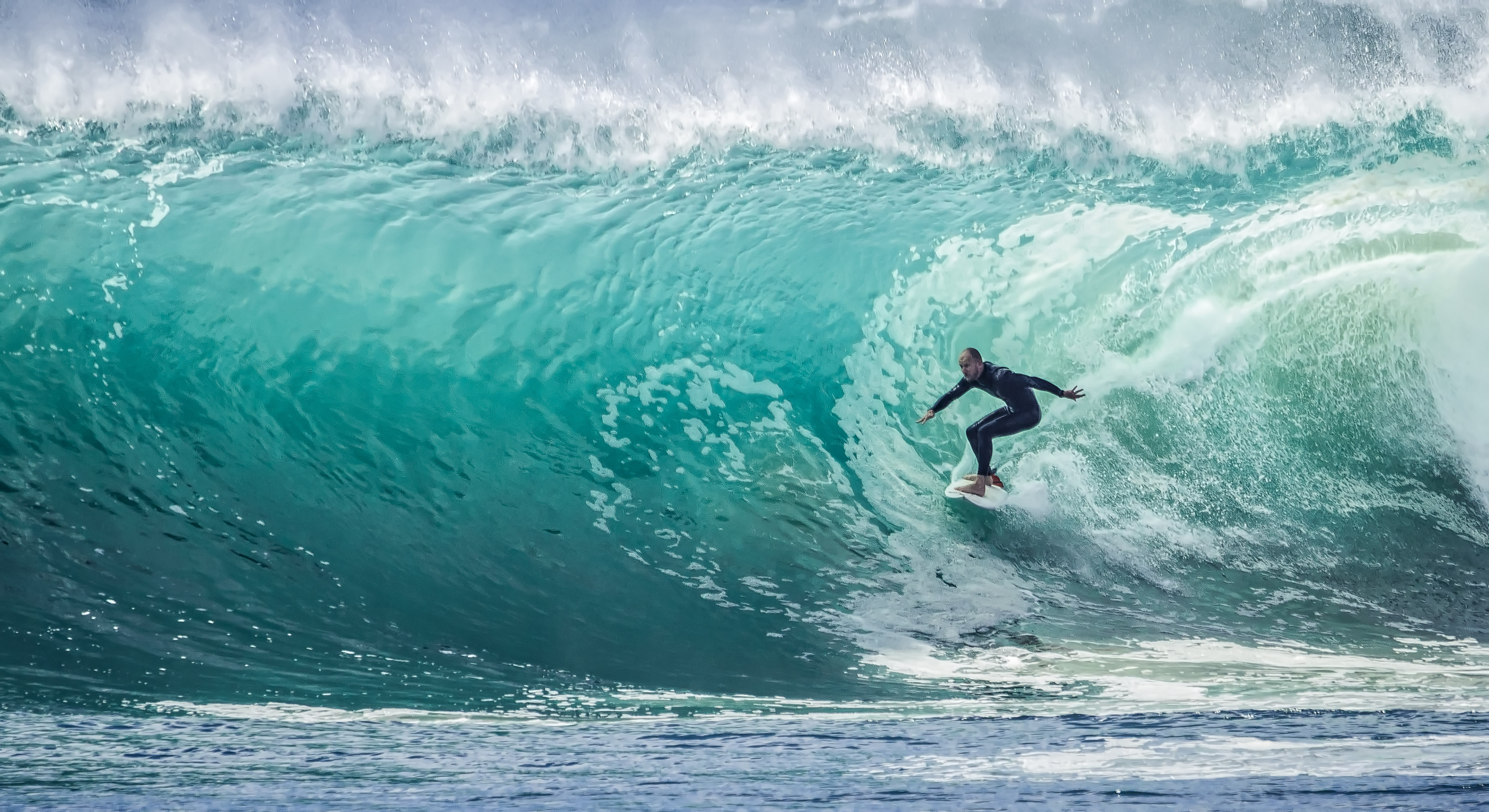 North Beach, Durban, South Africa